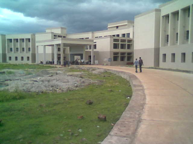 Bhadrak Institute Of Engg. & Tech.